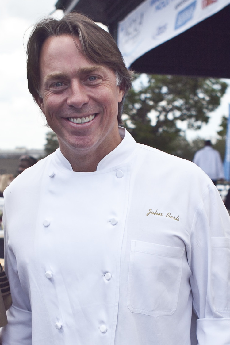 Lt. Gen. Steven A. Hummer, commander of Marine Forces Reserve and Marine Forces North, and Sgt. Maj. James E. Booker, MARFORRES sergeant major, gather with John Besh, an award-winning chef, during the Louisiana Seafood Cook-Off, April 20, 2012. The cook-off was held as part of the War of 1812 Commemoration. New Orleans will serve as the inaugural city in a three-year national celebration commemorating the War of 1812 and the Star-Spangled Banner. The Marine Corps’ role in this event reinforces its naval character, showcases the Navy-Marine Corps team and highlights the military’s enduring relationship with the city of New Orleans. (U.S. Marine Corps photo by Lance Cpl. Marcin Platek/Released)